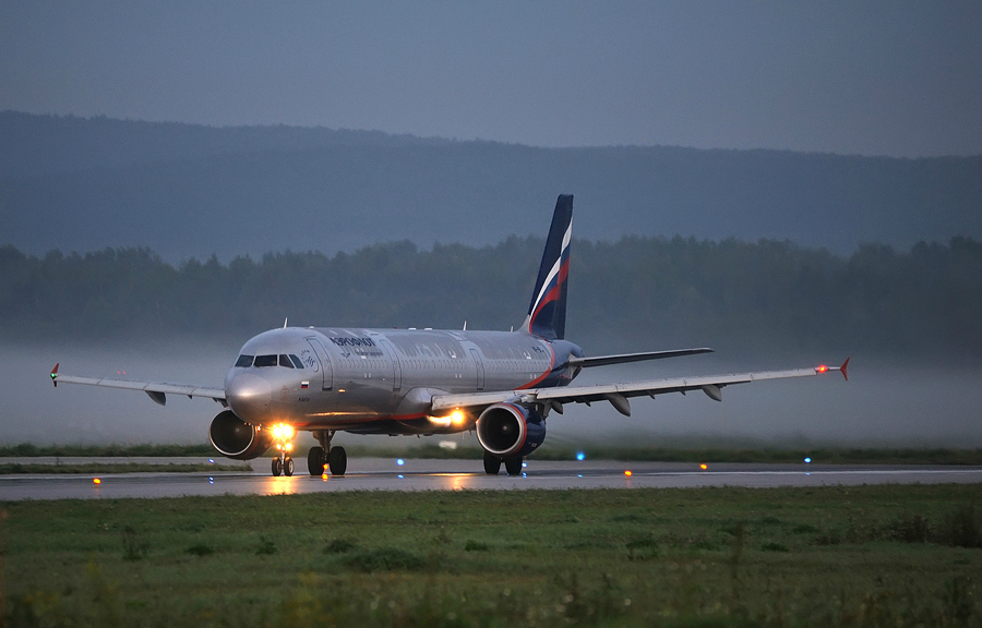 An Image of a small-body aircraft from Aeroflot getting ready for takeoff at the Koltsovo International Airport.